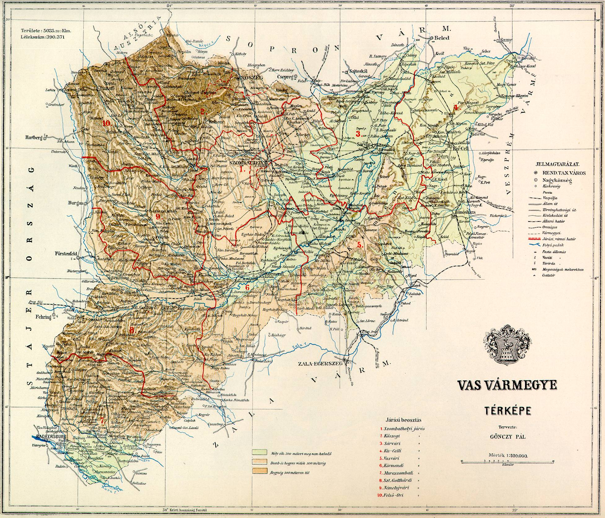 Map of the hungarian county Vas from 1891